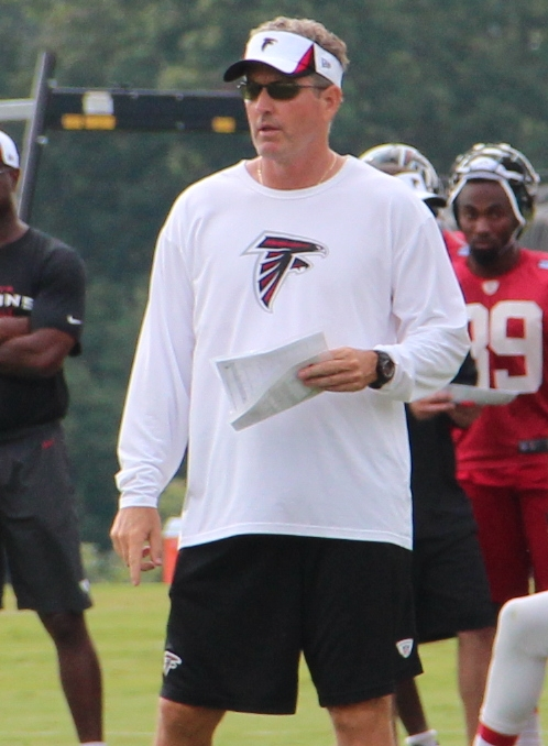 Offensive coordinator Dirk Koetter, 2013